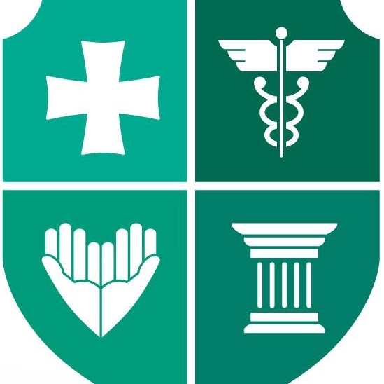 Ministry of Labour, Health and Social Affairs of Georgia. 2012